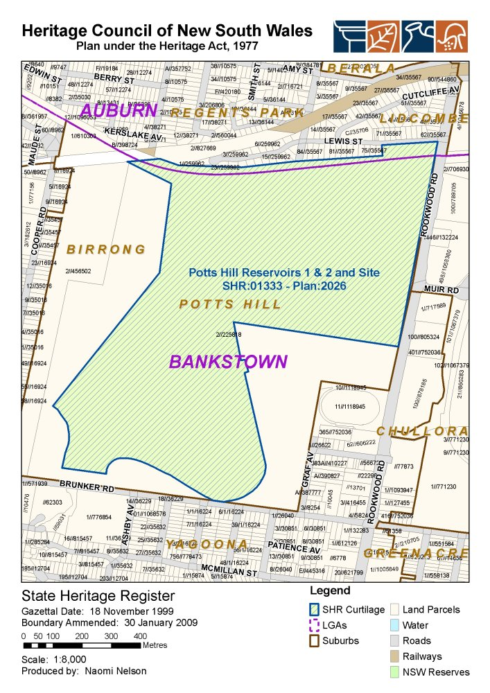 Potts Hill Reservoirs 1 and 2: SHR Plan 01333